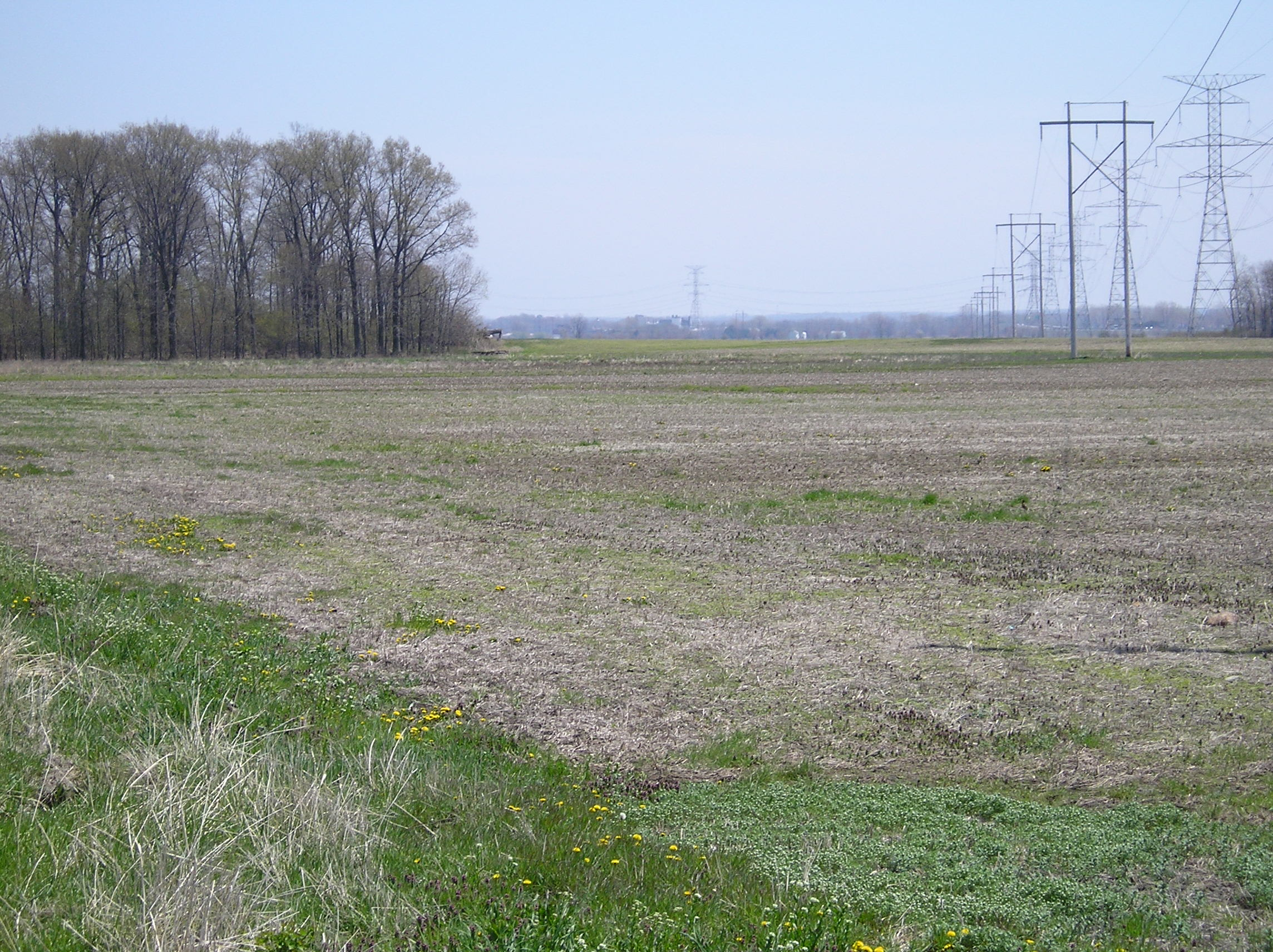 J Astolfi, person collection